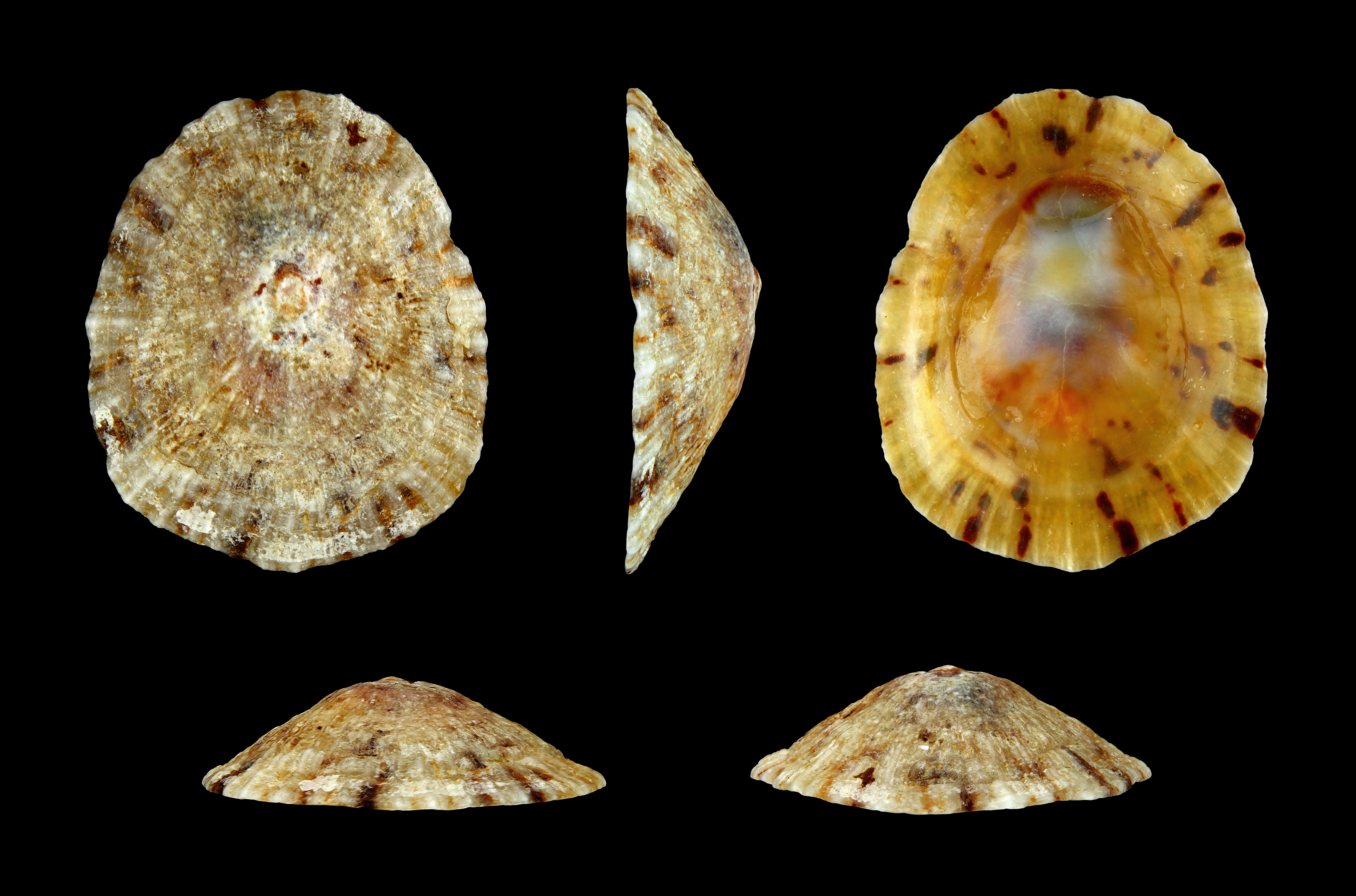 Wheel Limpet; Length: 3.4 cm; Originating from from the Red Sea, Gulf of Aqaba, Tabuk Region, Saudi Arabia; Shell of own collection, therefore not geocoded. Dorsal, lateral (left side), ventral, back, and front view.